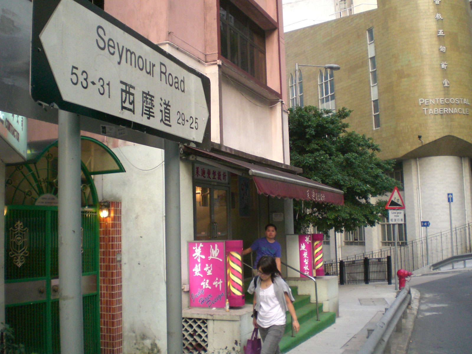 西摩道, Seymour Road, Central, Hong Kong